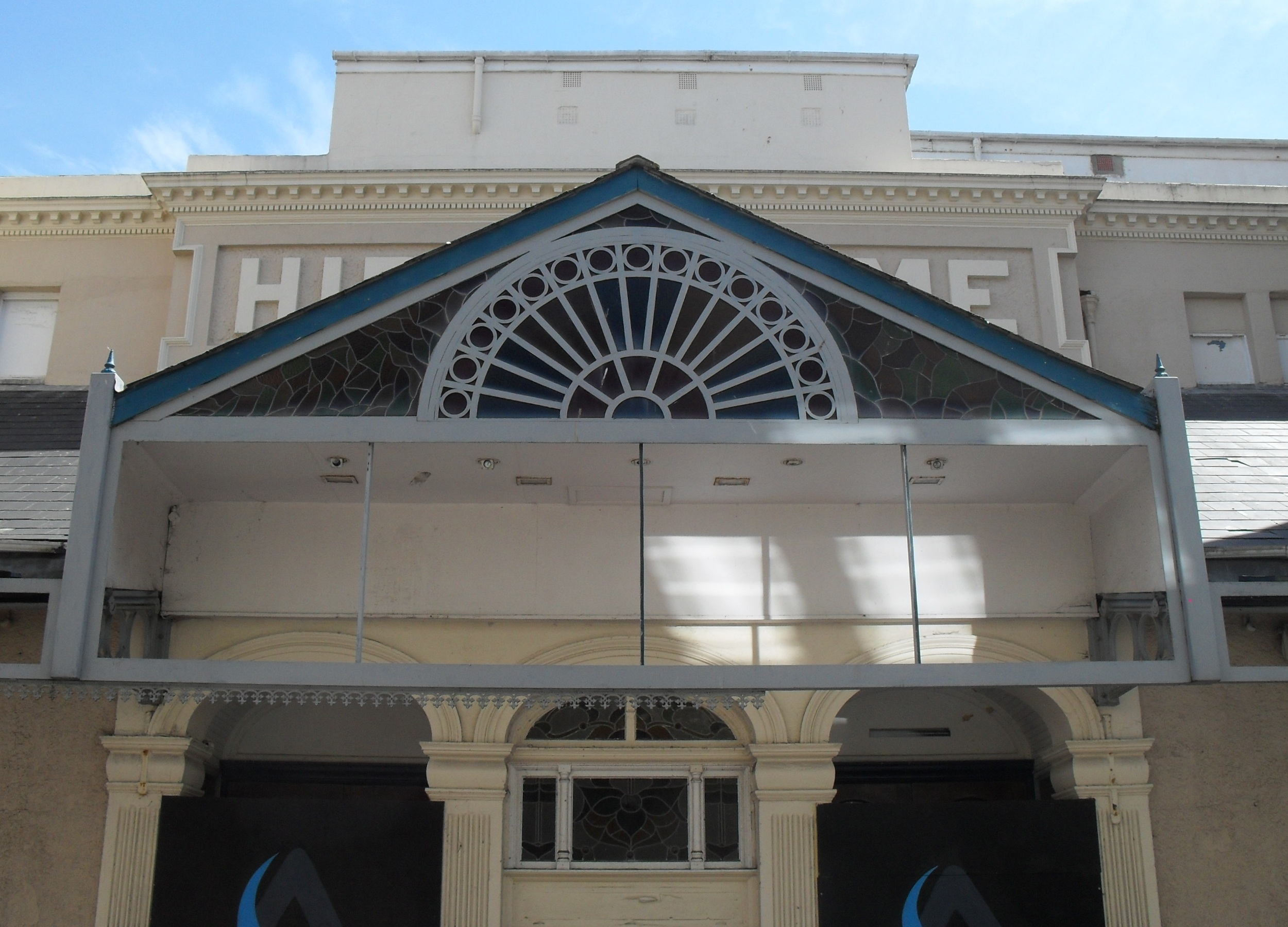 The central part of the glazed awning above the façade of the former Brighton Hippodrome—an 1897 entertainment venue in Brighton, England.